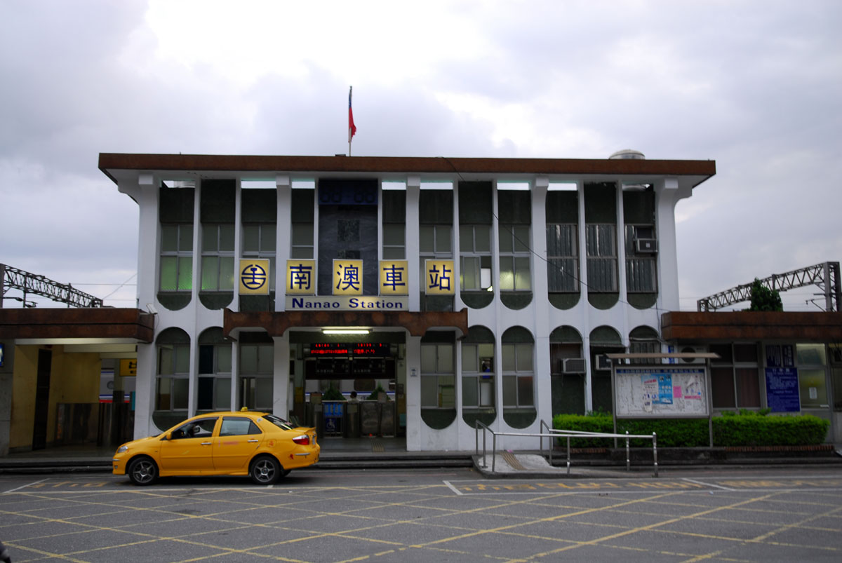 NanAo Station is a local train station of North-Link Line, part of Taiwan's eastern rail line. Although it's the main station of NanAo Township, the station itself is actually located within the boundary of Suao Town.中文（台灣）: 南澳車站是台鐵北迴線上的一座地方車站，雖然南澳車站是南澳鄉的主車站，但卻位於一路之隔的蘇澳鎮境內。